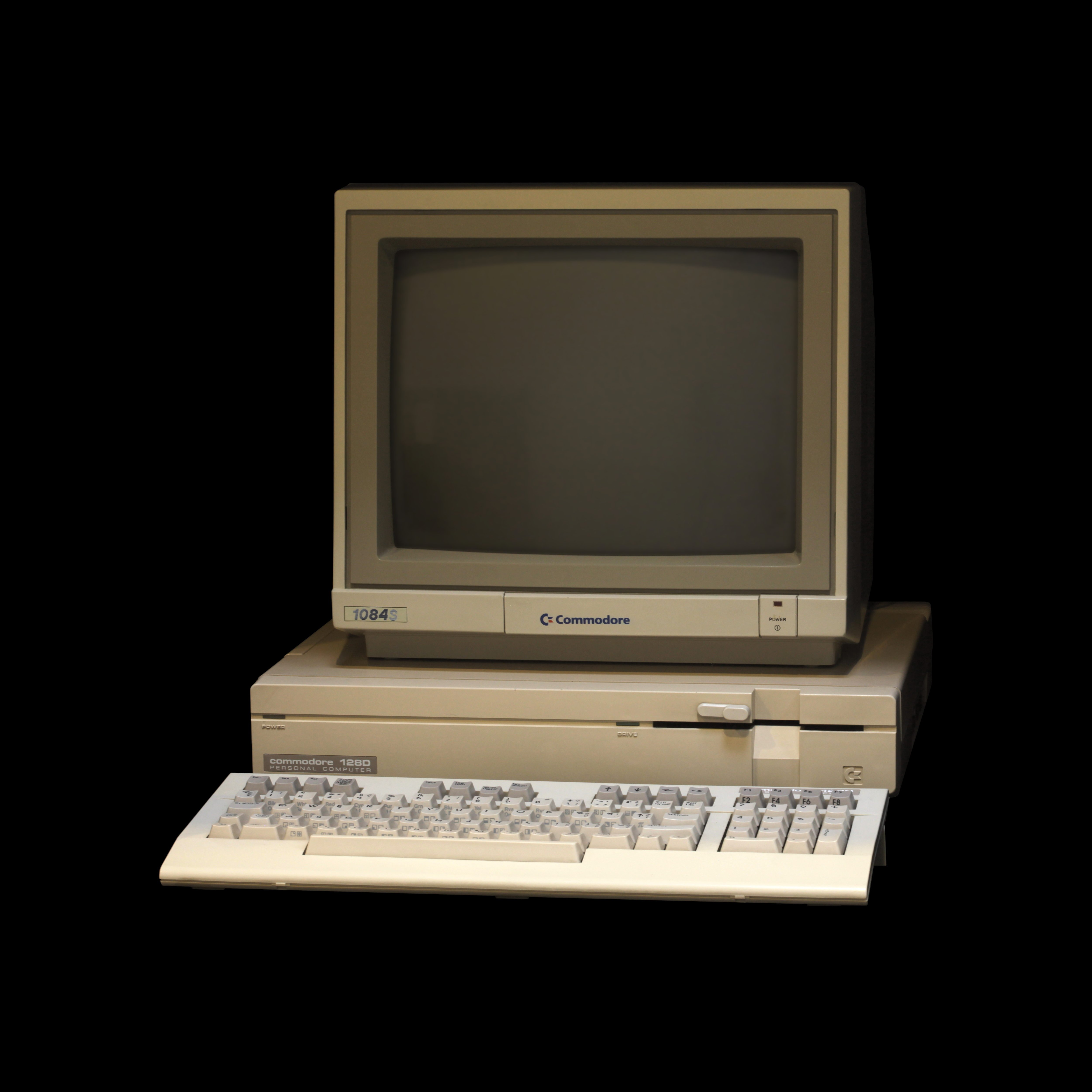 Commodore 128D On display at the Musée Bolo, EPFL, Lausanne. The making of this document was supported by Wikimedia CH. (Submit your project!) For all the files concerned, please see the category Supported by Wikimedia CH.